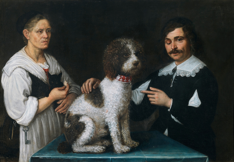 P.A. Barbieri, Ritratto del Guercino e della sorella Lucia Barbieri assieme a un cane Lagotto (Fondazione Sorgente Group)